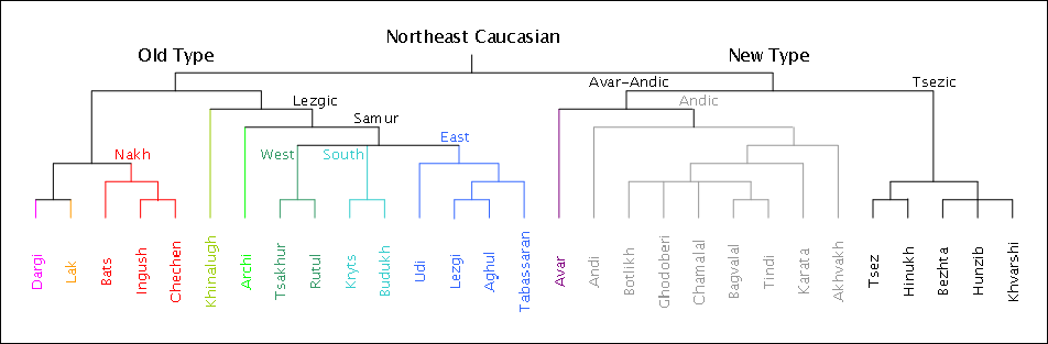 This schematic tree doesn't reflect relative dating. It only suggests the splitting. Hence, Lak and Dargi may not be closer to each other than Chechen and Ingush. Inspired by the information in Schulze (2009)